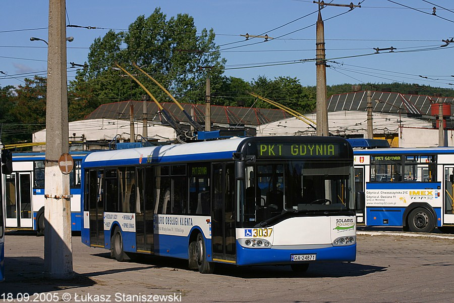 Polish lowfloor trolleybus Solaris Trollino 12T shot at old trolleybus depot in Gdynia Redłowo. Year built 2001.